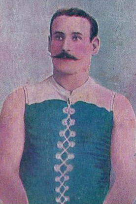 Cigarette card of Fred Elliott from the 1905 Wills Past and Present Champions series.